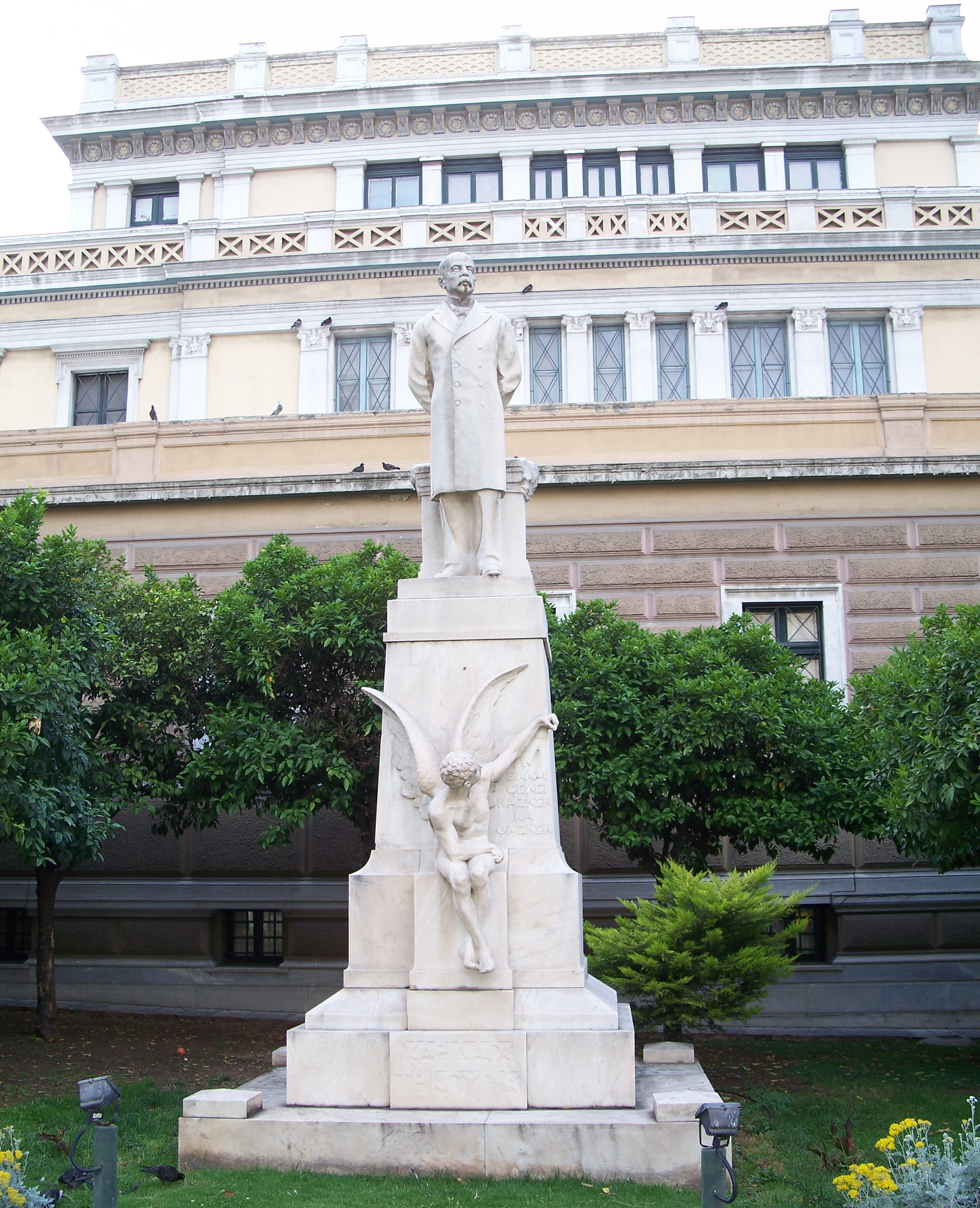 Statue of Charilaos Trikoupis at the side of the Old Parliament in Athens.